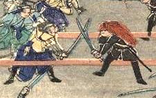 Duel_between_a_Shogitai_and_Shaguma_in_the_Battle_of_Ueno.